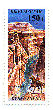 Stamp of Kyrgyzstan